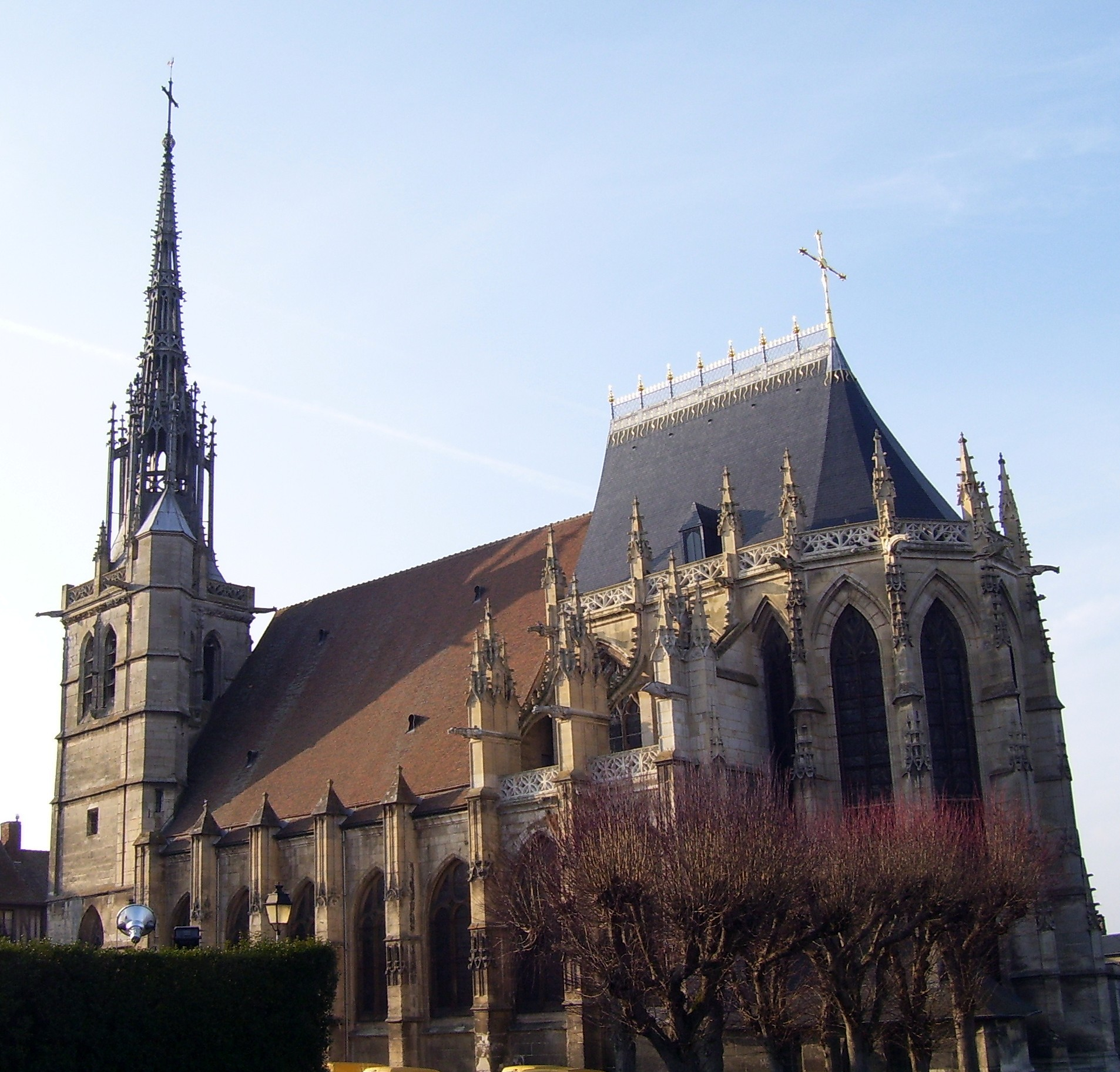 Gothic church Sainte-Foy (Saint Faith) in Conches-en-Ouche, departement Eure, Normandie, France. It was built in the 16th century.